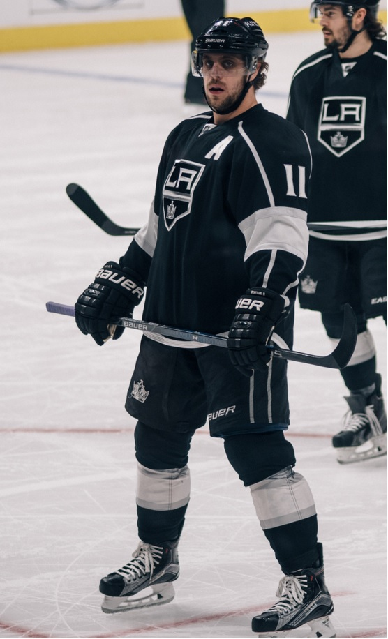 Kopitar in 2015 (cropped)